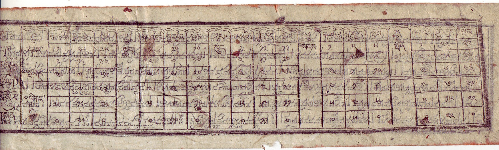 Chart of the Tibetan equation of the five planets from an old Tibetan blockprint (1914)